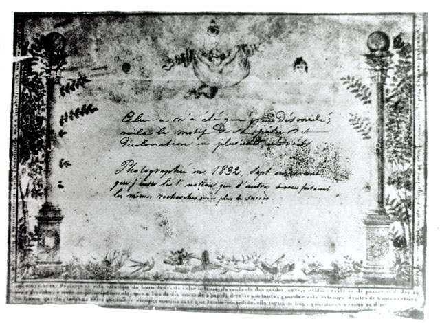 First photocopy developed in the world (1839, by Hércules Florence in Campinas, Brazil, using a technique of revelation and fixation with silver nitrate on paper. It portrays a copy of a diploma.